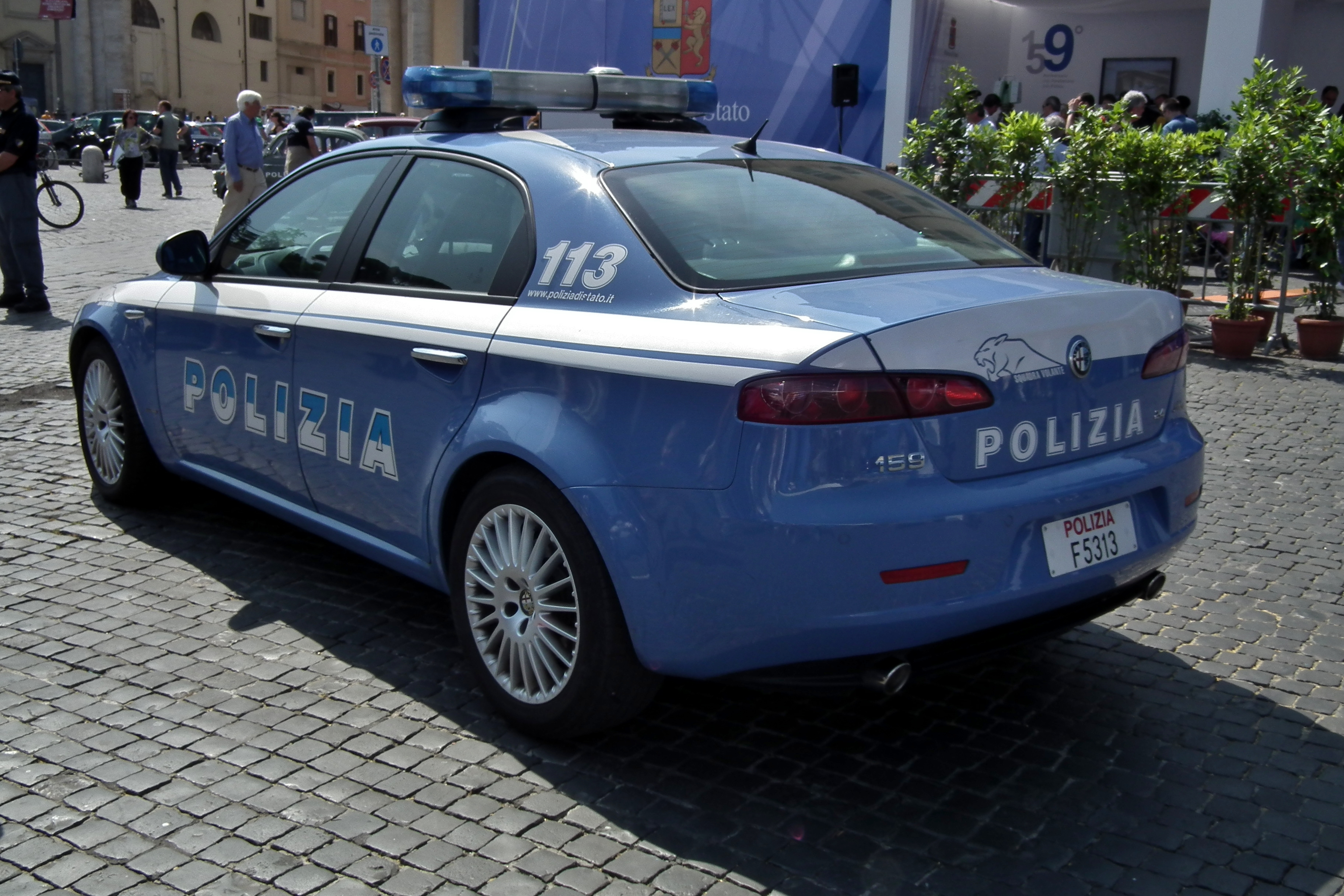 Alfa Romeo 159 sedan. Operated by the Squadra Volante (Flying Squad) of the Polizia di Stato (Italian State Police). Taken at a Polizia display in the Piazza del Popolo in Rome.